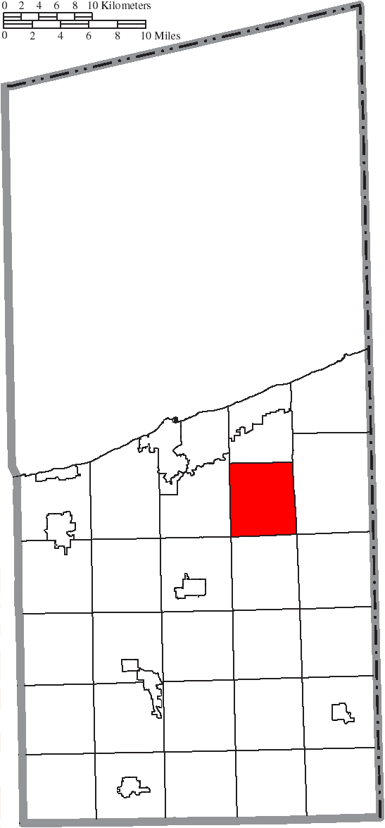 Map of the municipal and township boundaries of Ashtabula County, Ohio, United States, as of the 2000 census, with the location of Sheffield Township highlighted. Township borders are shown only in unincorporated areas in order to differentiate incorporated and unincorporated areas more clearly.